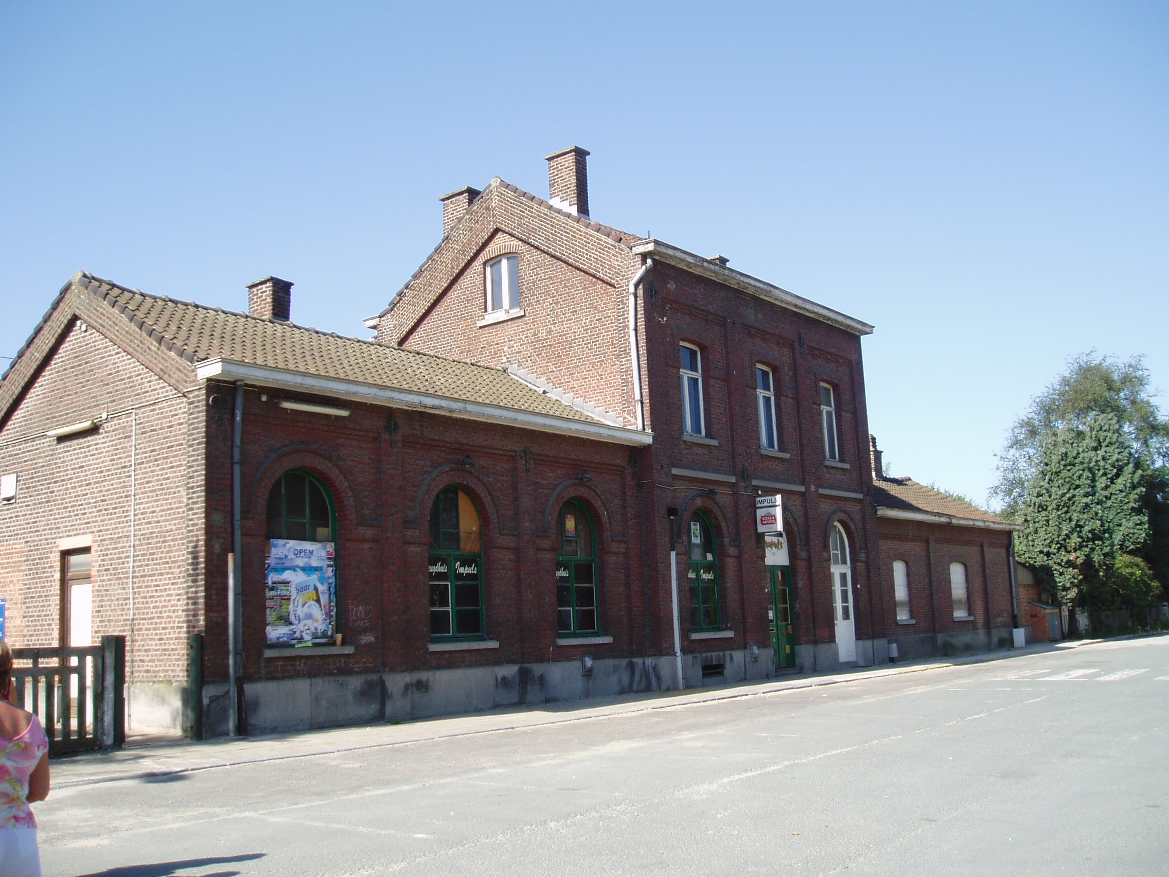 Old railway station in village Wijgmaal, Belgium